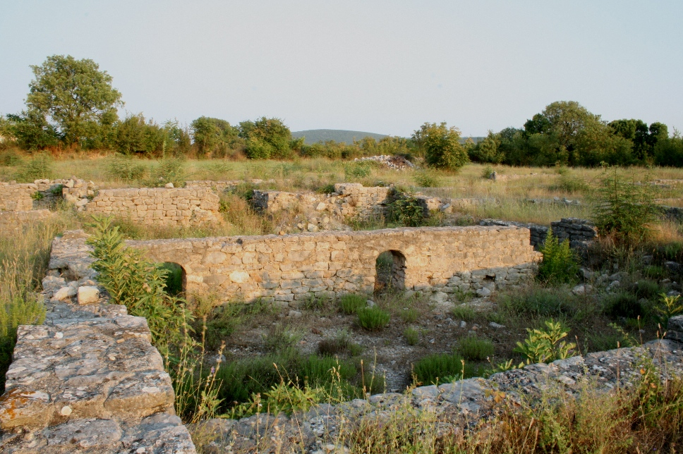 Ancient Roman military camp in the municipality of Ljubuški - Praetorium with hypocaust in front, entrance section behind